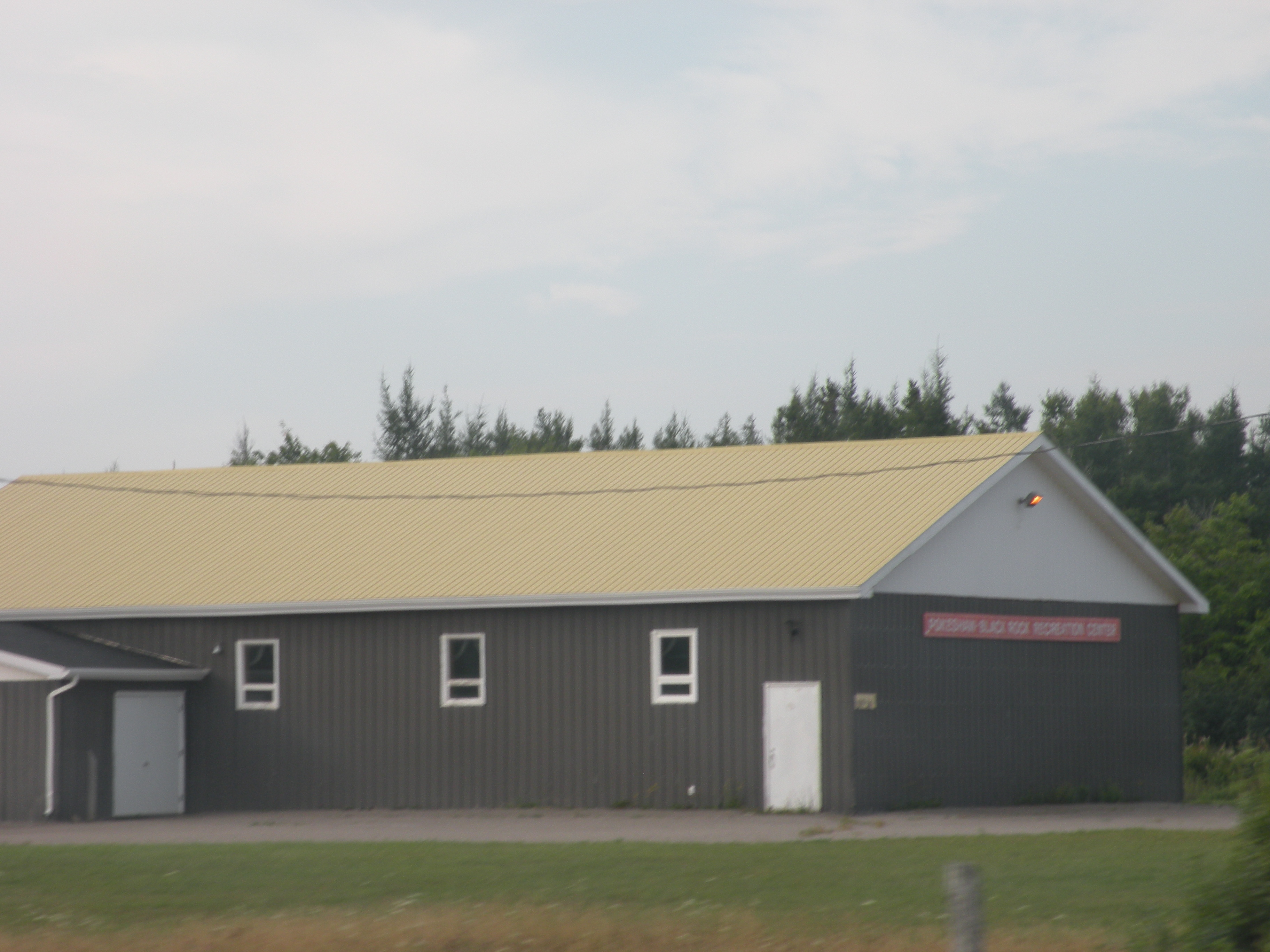 Pokeshaw Black Rock Recreation Center, in New Brunswick.